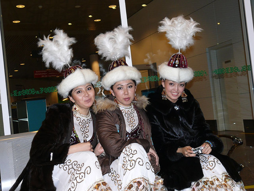 Women from Kazakhstan